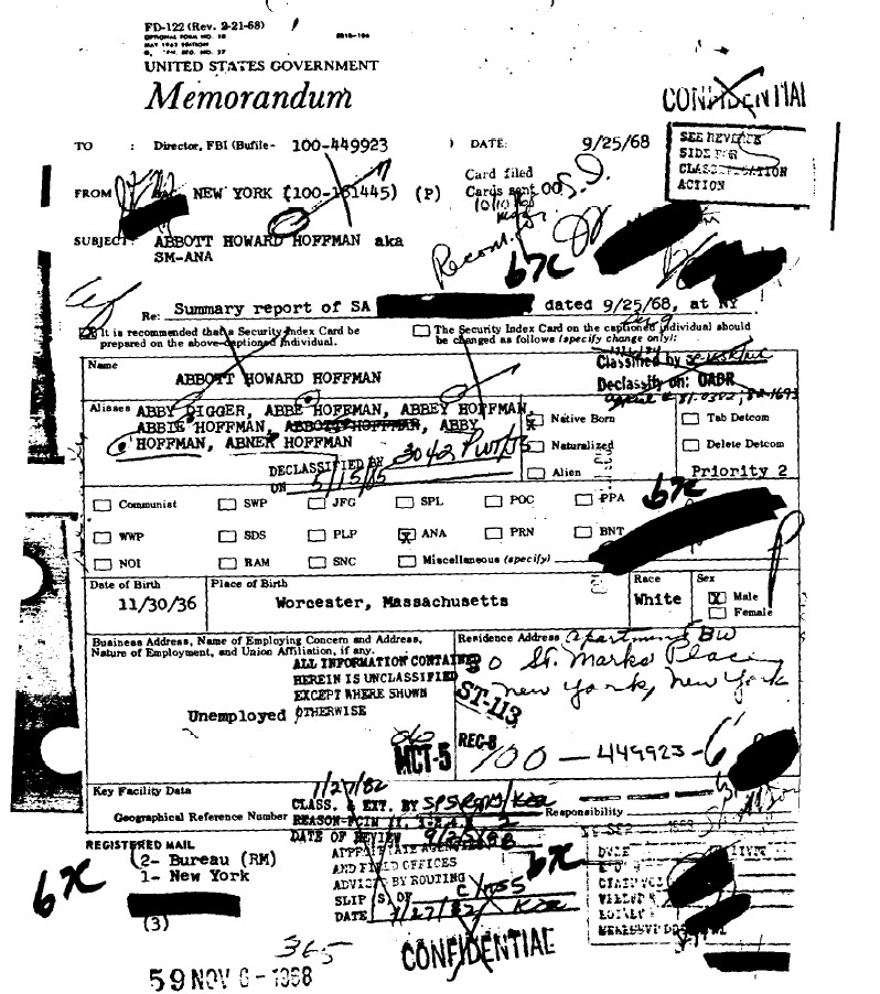 Page from FBI memo on Abbie Hoffman.